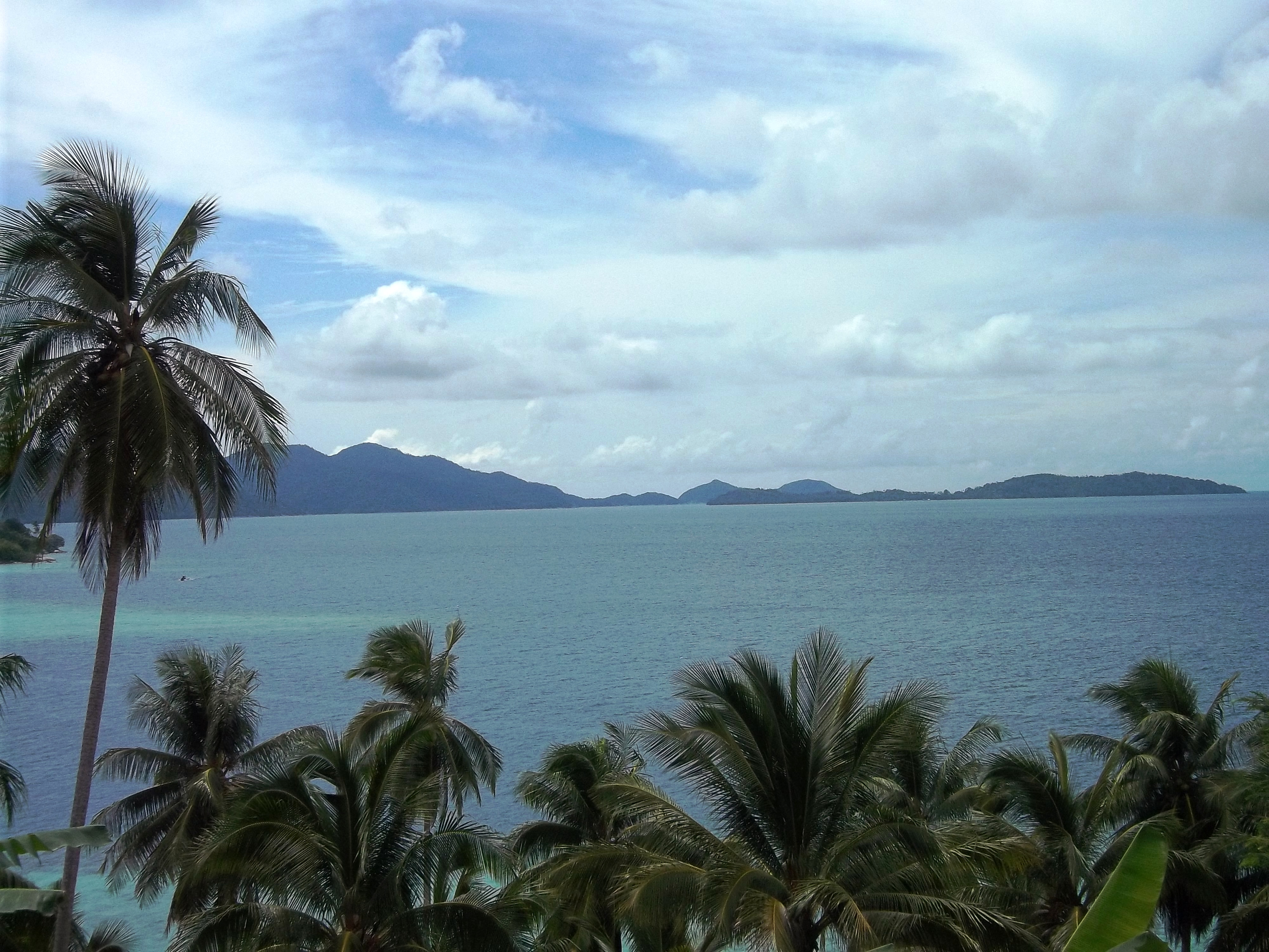 A view from Nyamuk, Siantan Timur